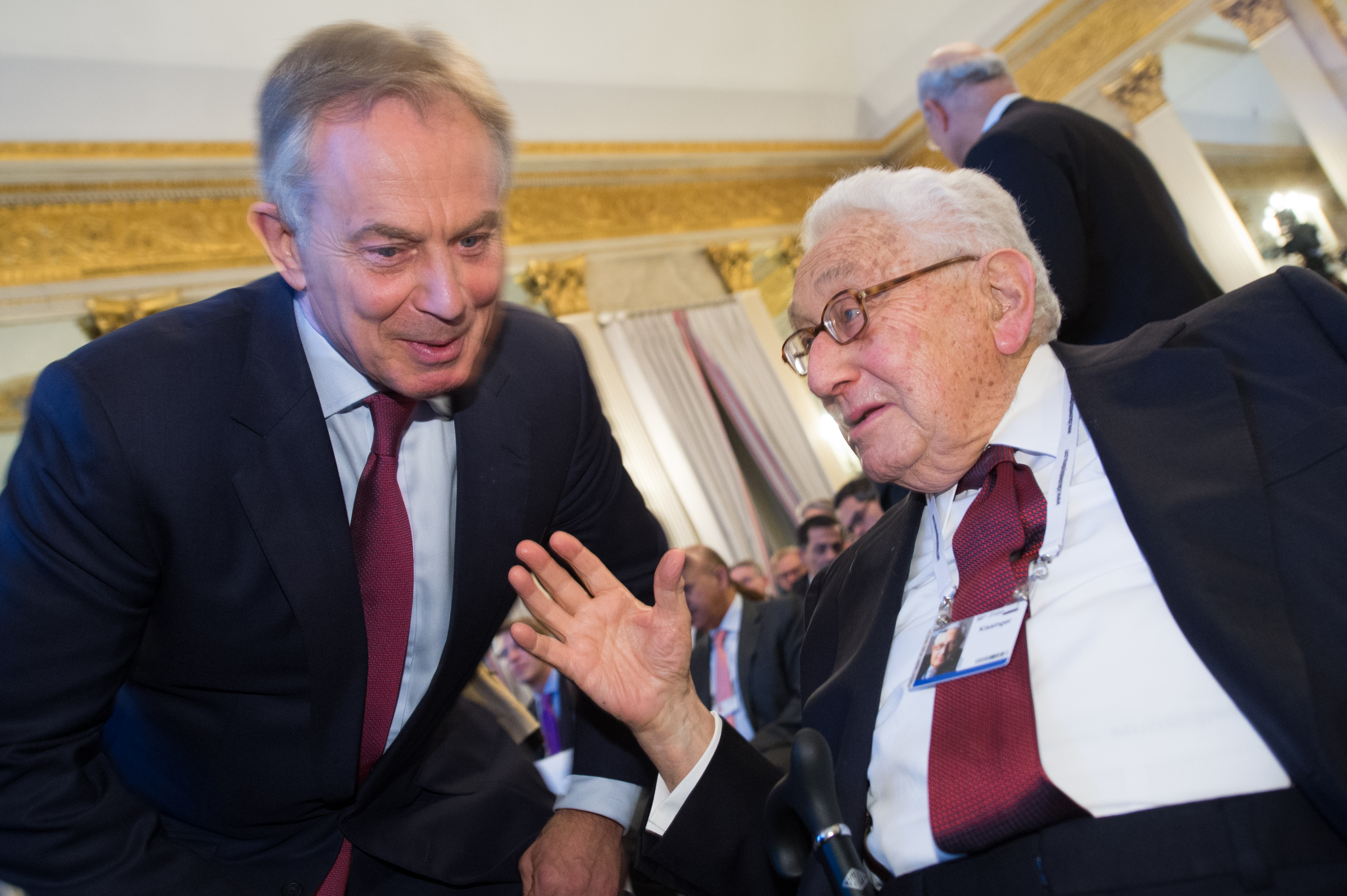 50th Munich Security Conference 2014: Tony Blair and Henry Kissinger: Tony Blair, Former Prime Minister of the UK, and Henry Kissinger, Former U.S. Secretary of State.